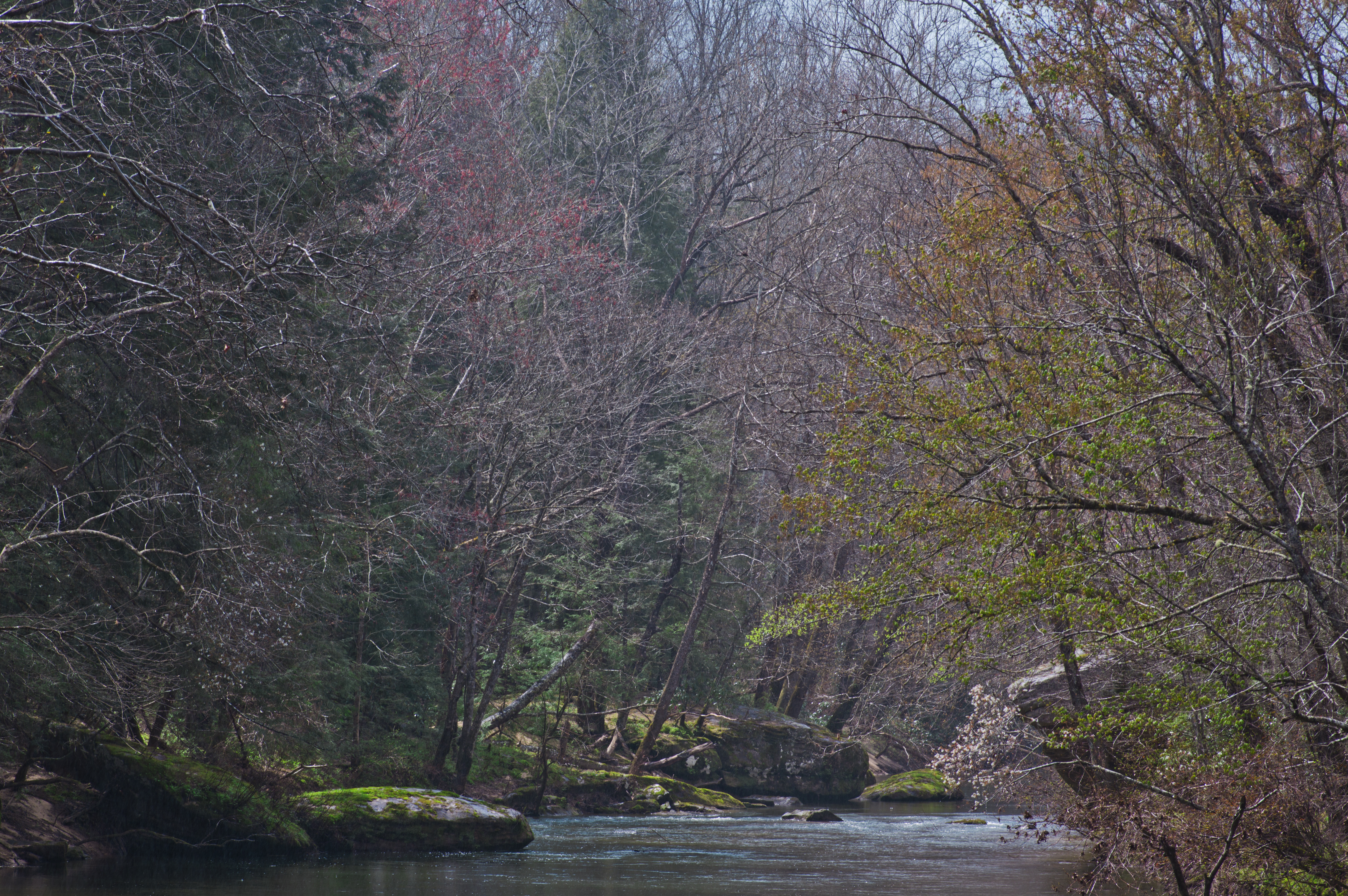 Taken within the southern boundary of the Big South Fork NRRA just downstream of Peter’s Bridge.